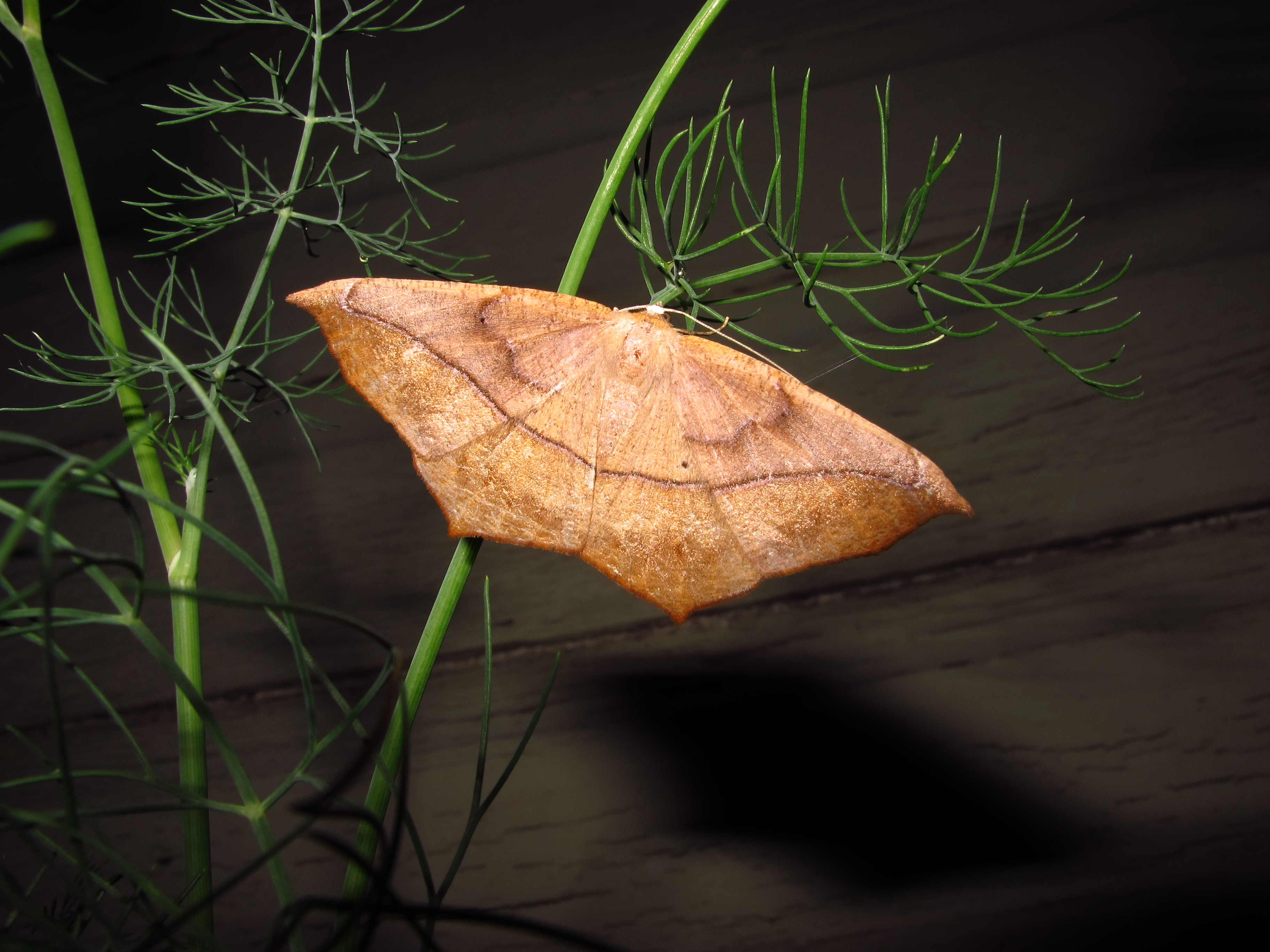 A photo of the large maple spanworm moth (Prochoerodes lineola, syn.: Prochoerodes transversata), taken Tuesday, 06 July 2010 08:58:16 PM in Madison, Wisconsin, United States.